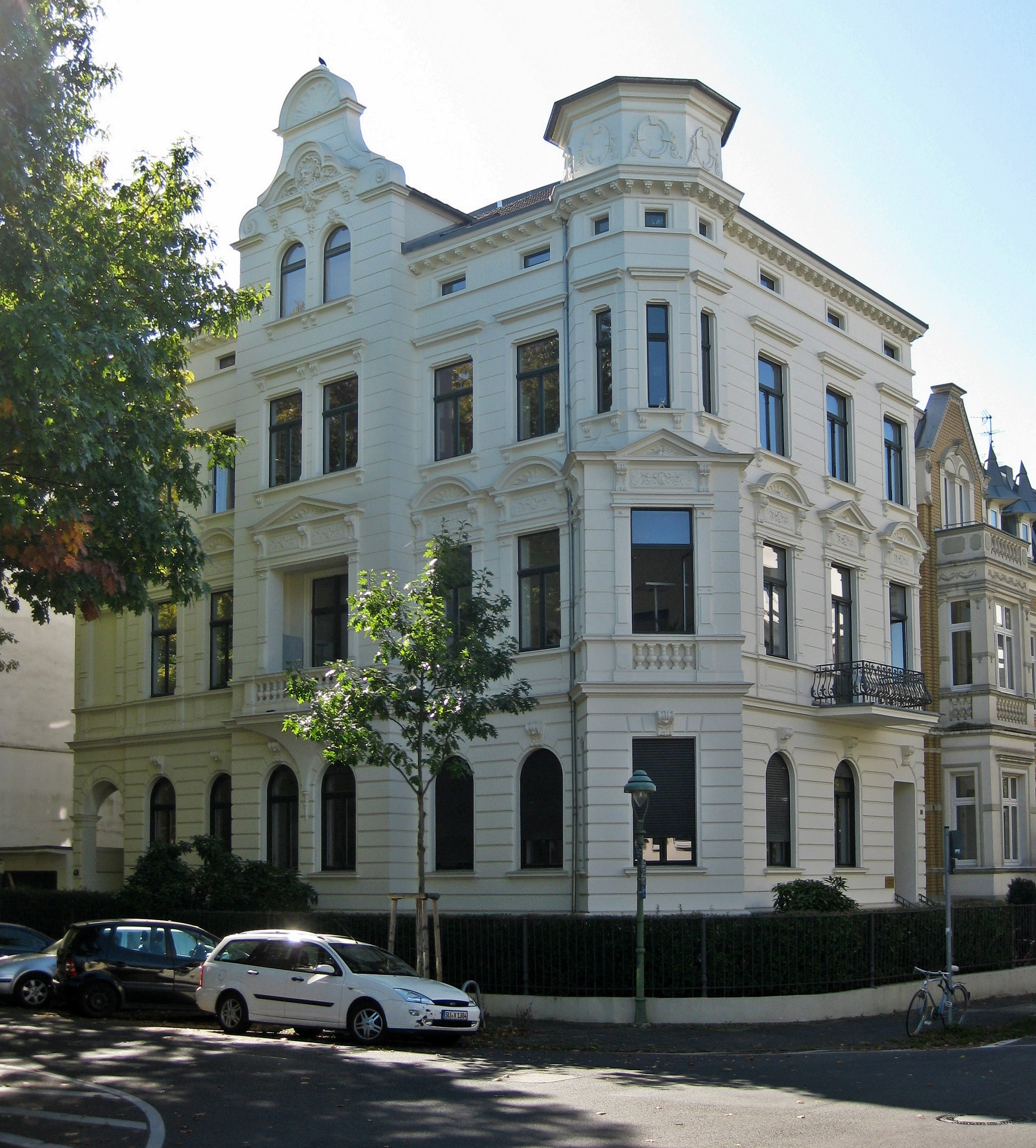 Germany, Bonn-Gronau: Building of the former representative of the State of Thuringia to the Federal Government; now used as an office building.